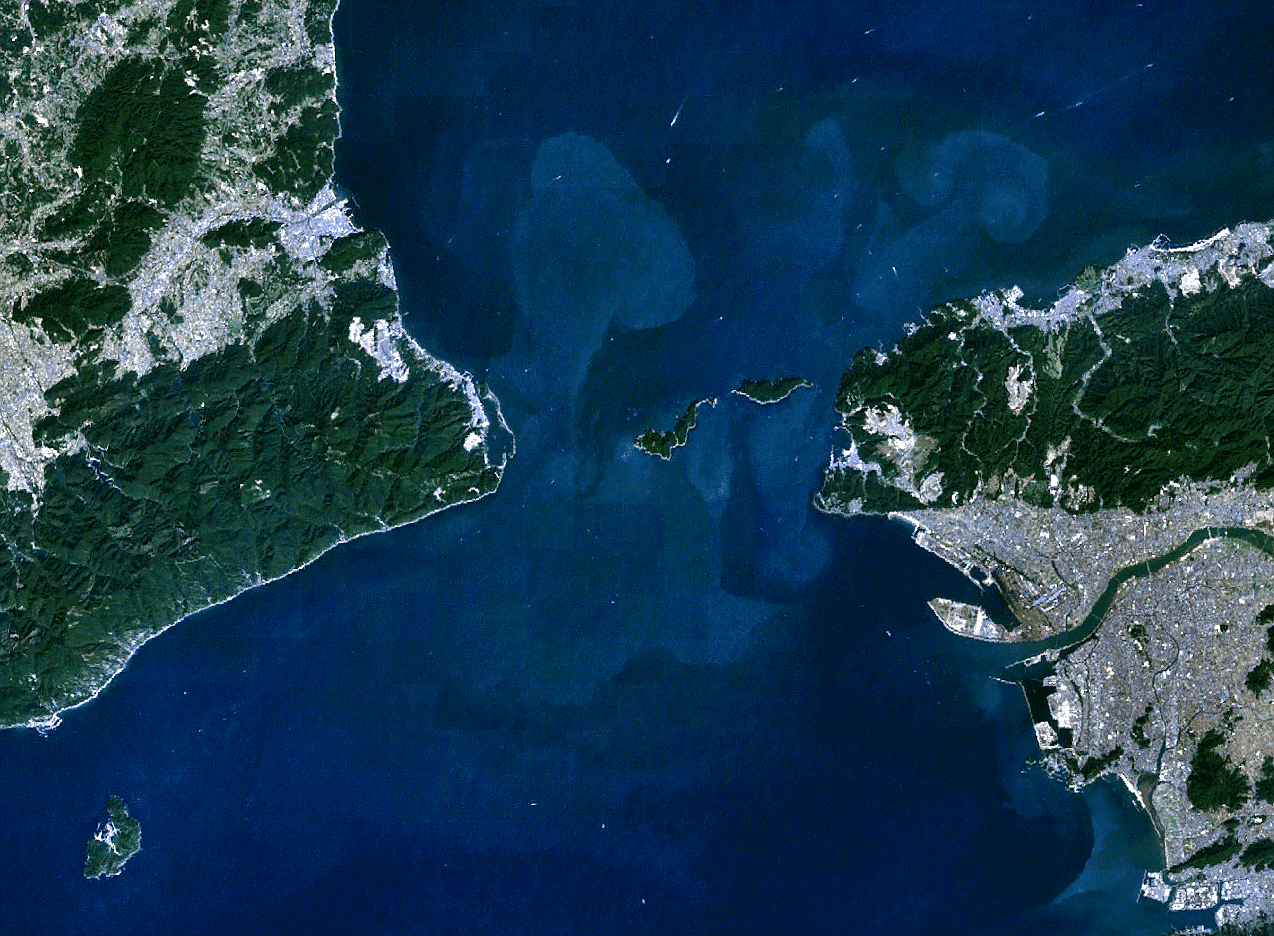 the view of Kitan Strait in Japan, from Landsat, generated on NASA World Wind.